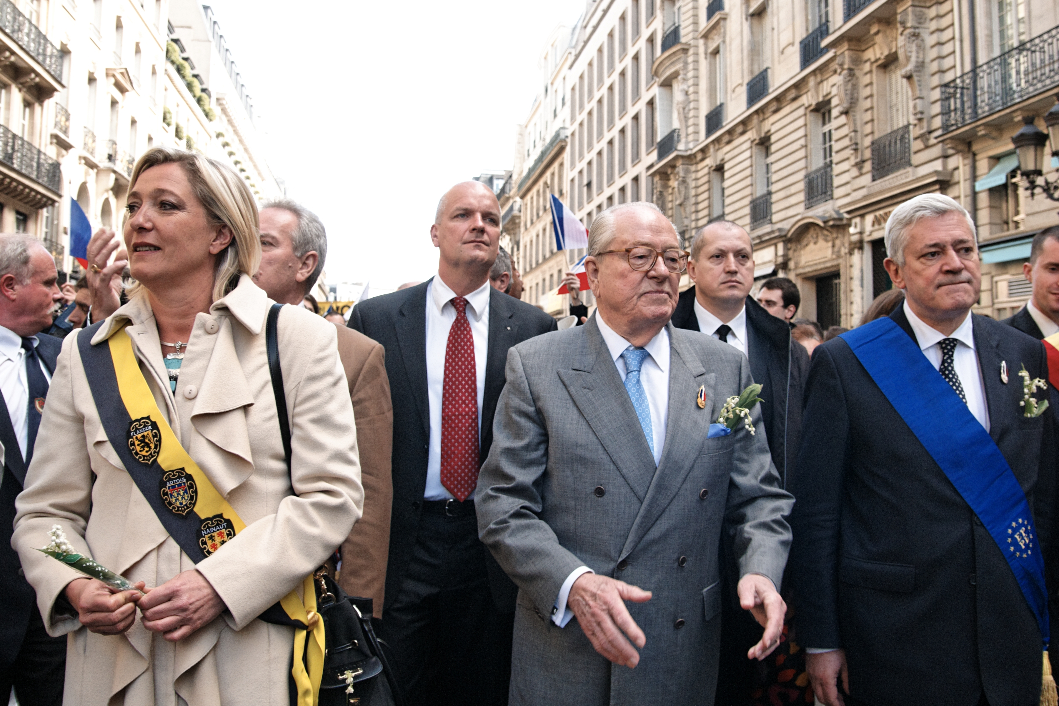 Marine Le Pen, Jean-Marie Le Pen and Bruno Gollnisch, 1st of May National Front's rally in honour of Joan of Arc, Paris.